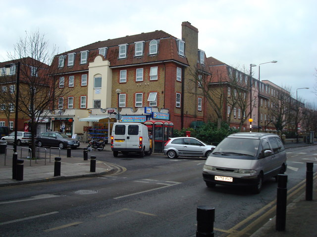 Manor Road, junction with Memorial Avenue, London E15